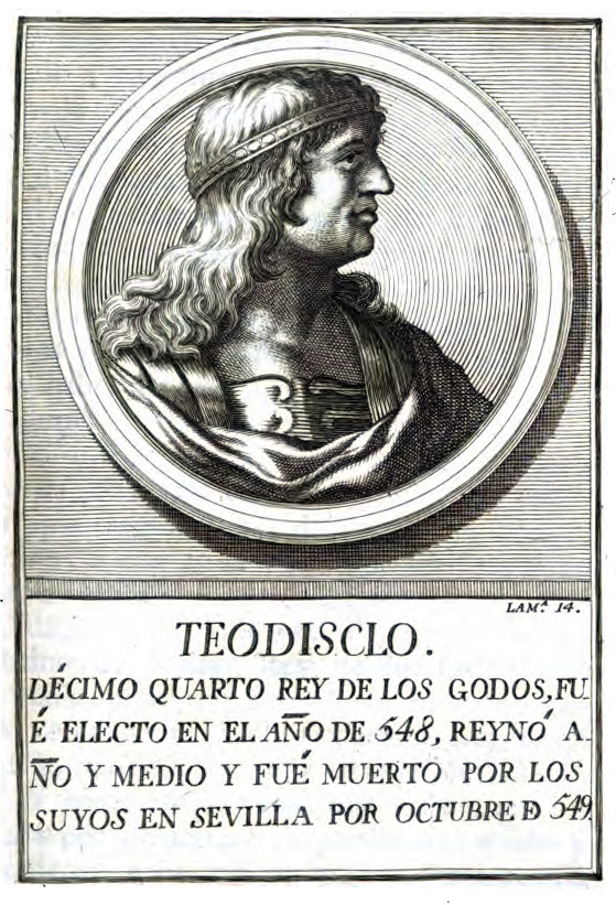 A poster of TEODISCLO or TEUDISELO, Visigoth king, n° 14 in the chronological order of the book digitalized by Google since the bookshop in the University of Oxford.